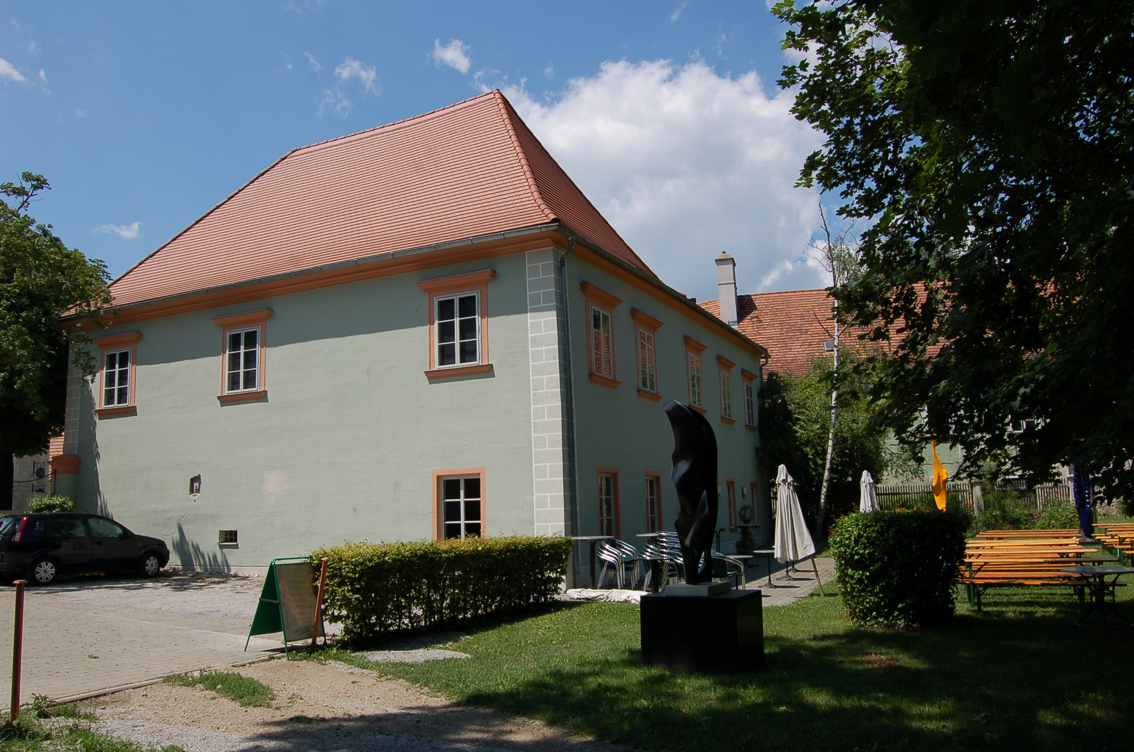 Fischau palace, Bad Fischau, Lower Austria